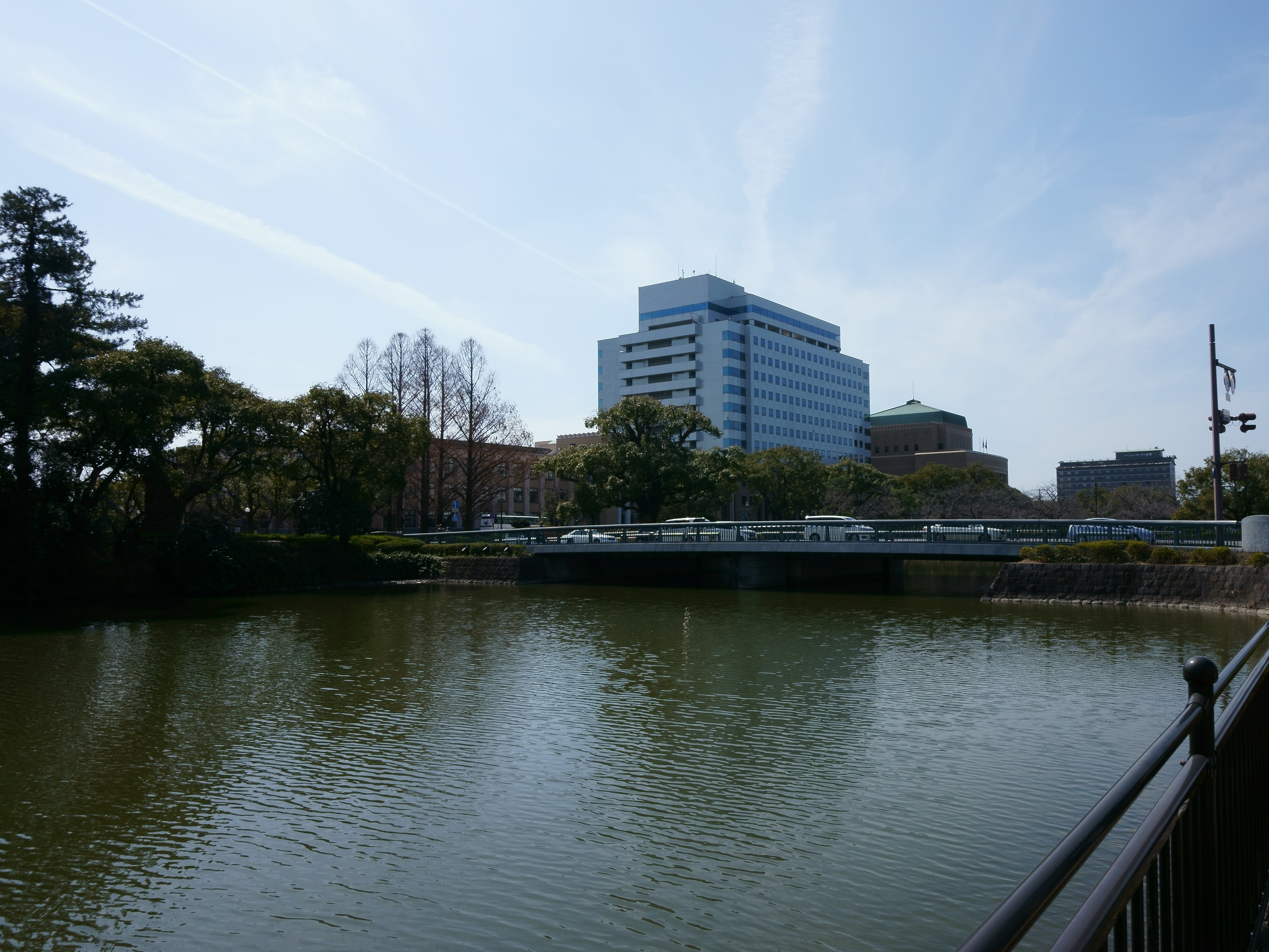 Saga prefectural government office buildings and a bridge over moat of Saga Castle, in Jōnai, Saga city.